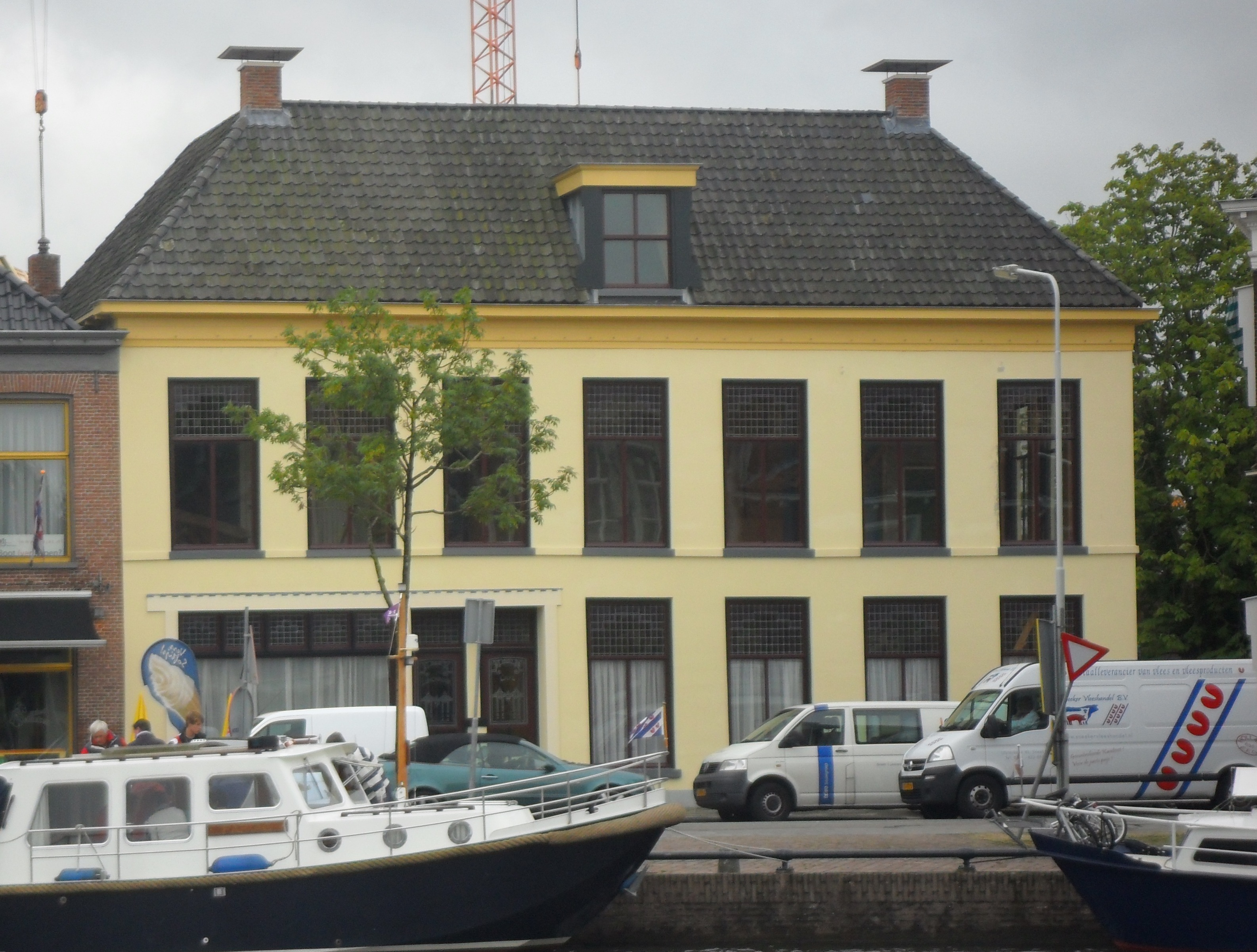 Hotel Ozinga in Sneek.